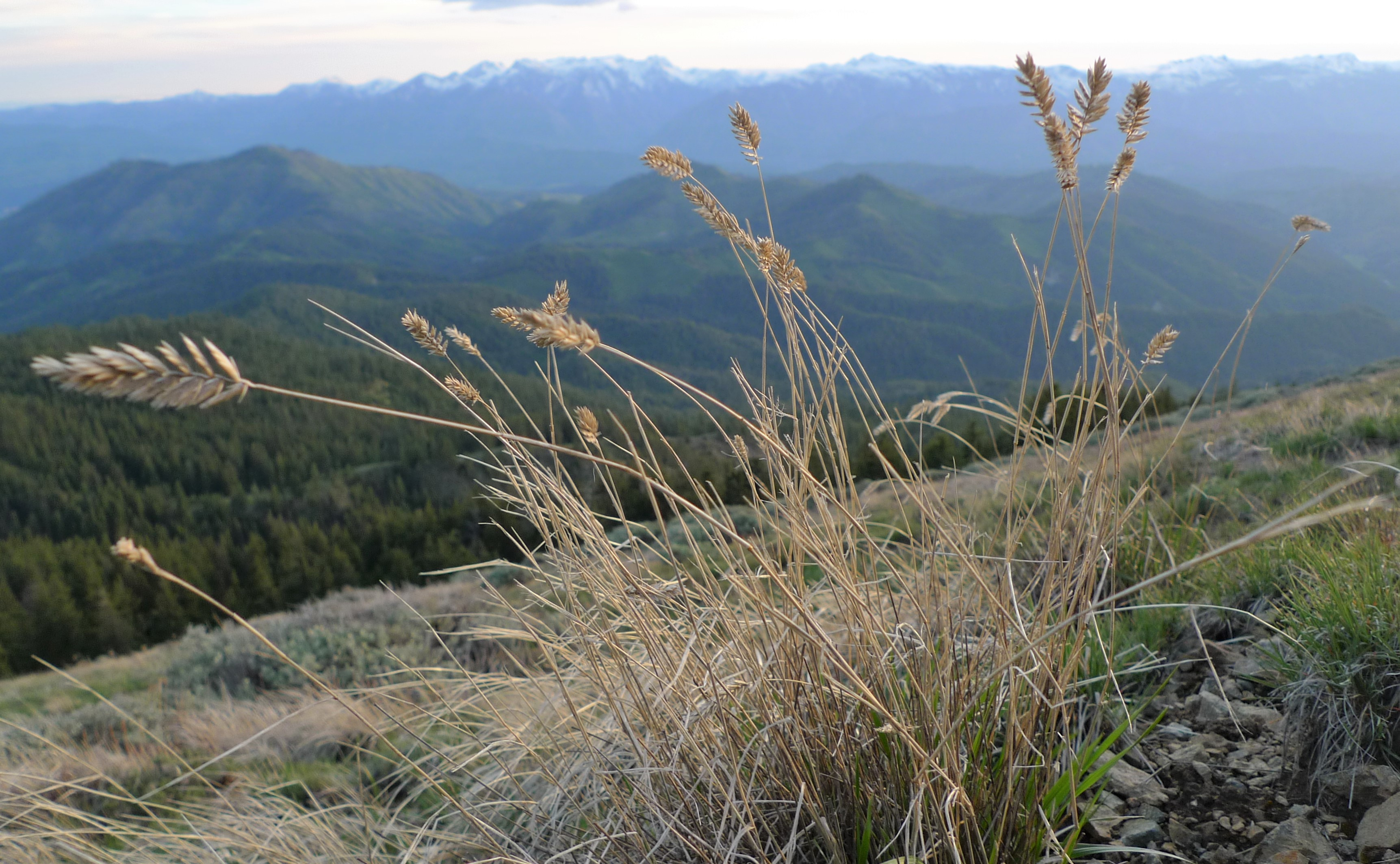 Agropyron cristatum on Chumstick Mountain, Chelan County Washington. Non-native species purposefully seeded in a sub-alpine area after a wildfire apparently- in which they tore a fireline straight up the mountain.